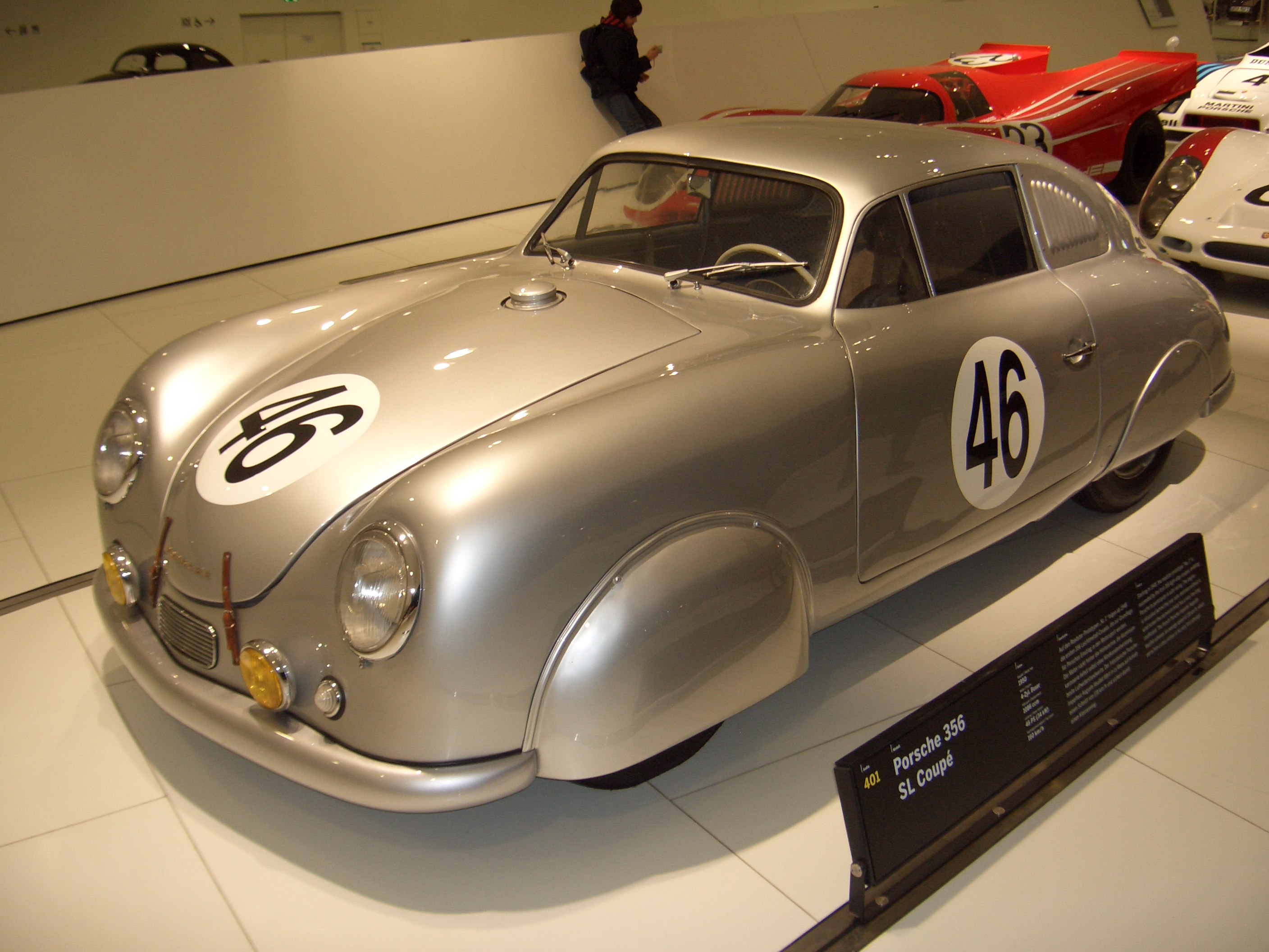 see filename for despcription - seen at Porsche Museum Native namePorsche-MuseumLocationStuttgartCoordinates48° 50′ 07″ N, 9° 09′ 06″ E Established1976 (old museum) 2009 (new museum)Web page control : Q328623 VIAF: 138511768 GND: 2087859-X SUDOC: 155641123 NKC: ko2015876799 institution QS:P195,Q328623